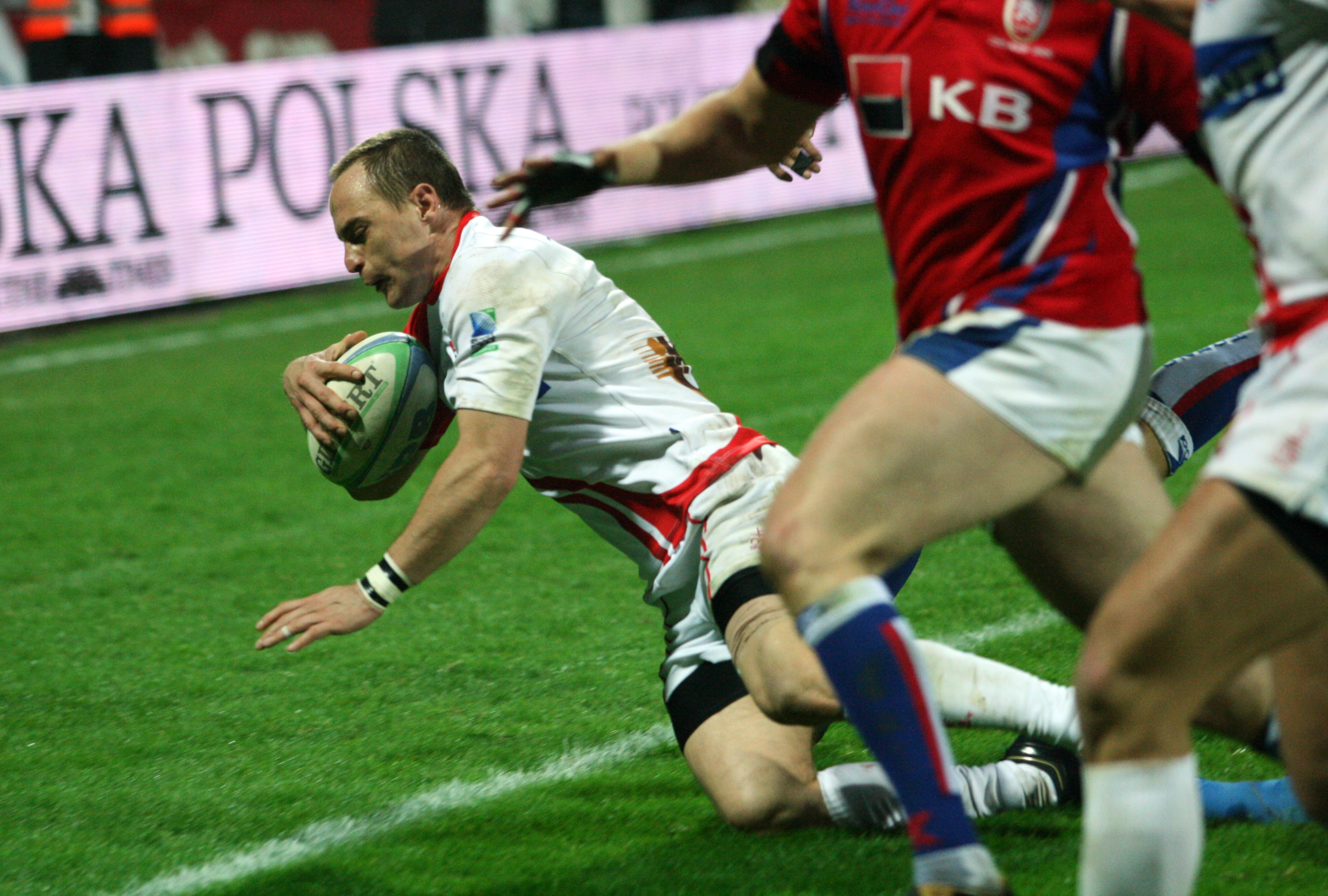 Polish international rugby union player Krzysztof Hotowski during match against Czech Republic.